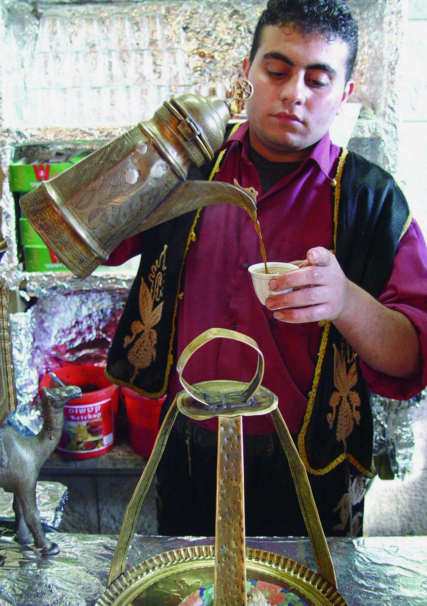 "Turkish" coffee in the Arab village Abu Ghosh (Israel)